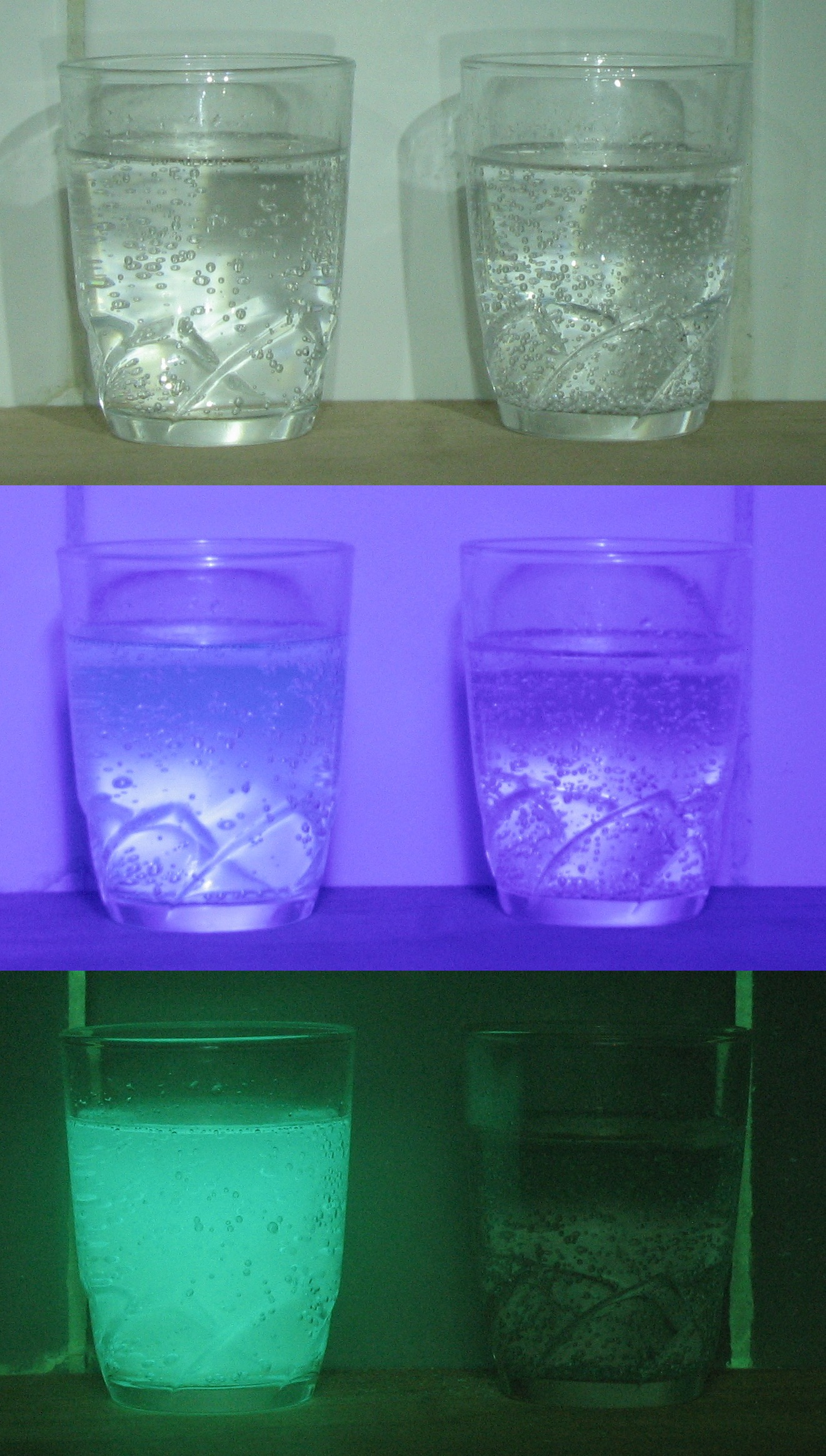 'Tonic' fluorescence